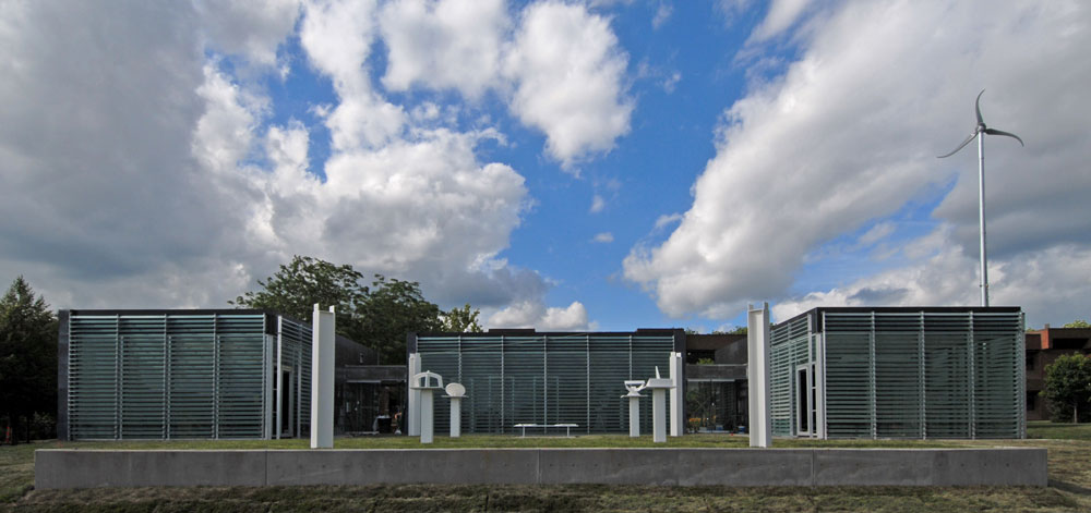 Studio 804's latest Project. Galileo's Pavilion acts as the flagship sustainable classroom building on Johnson County Community College's Campus in Overland Park, KS.